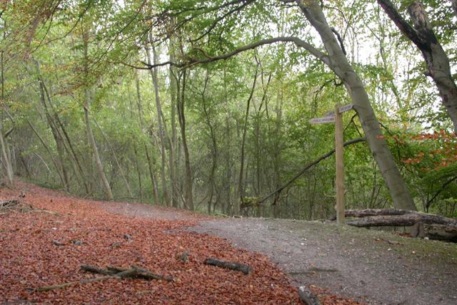 Hackhurst Downs. Beech woodland on the North Downs.